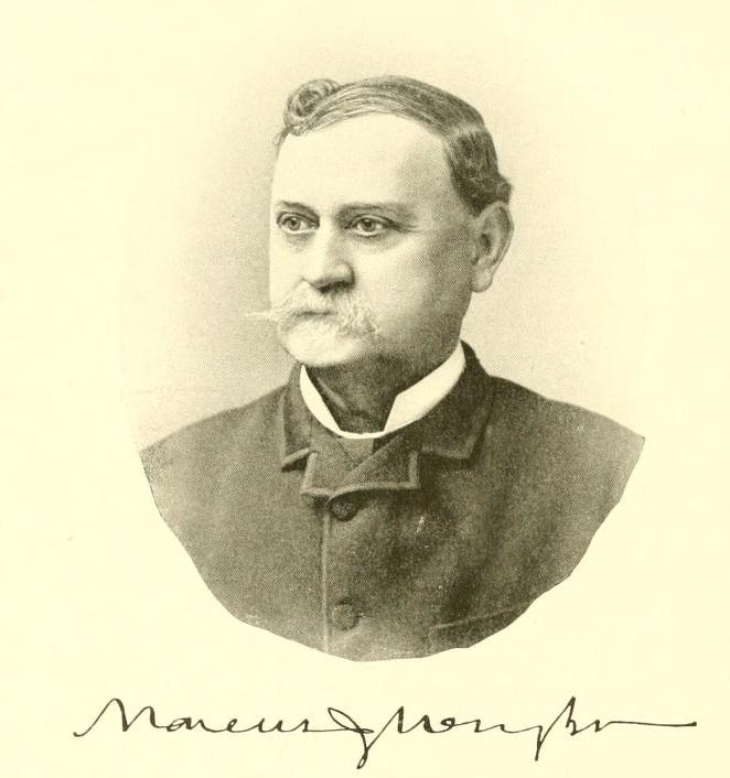 John Cox Underwood. Report of Proceedings Incidental to the Erection and Dedication of the Confederate Monument. Chicago: W. Johnston Print. Co., 1896, p. 160.